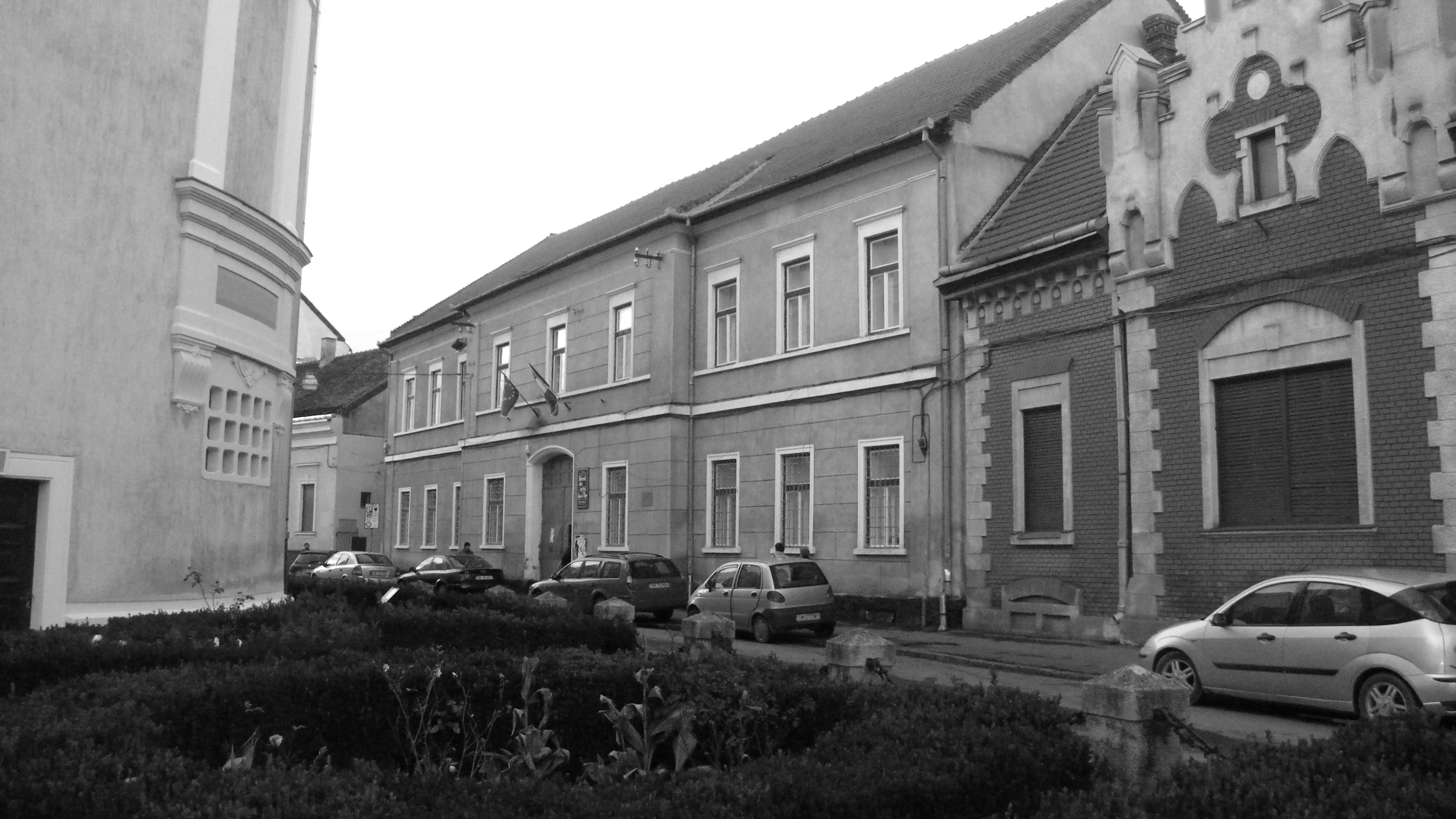 the late reformed boarding school (today: Aurel Popp Art-school), Satu Mare/Szatmárnémeti/Sathmar